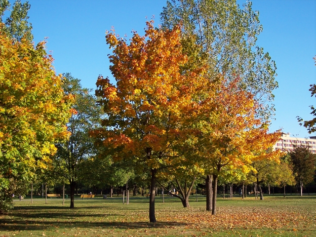 Autumm 2005 in Warsaw in Poland.